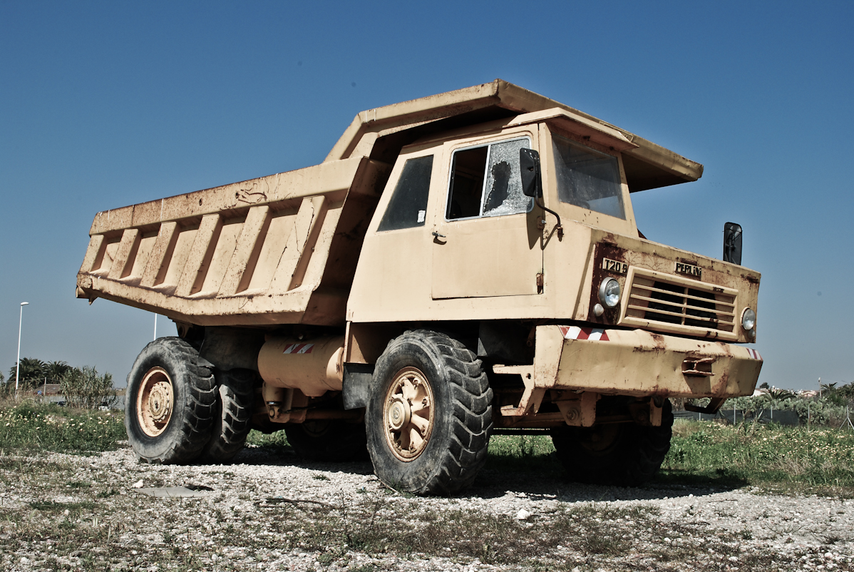 Perlini T20 S Heavy dump truck in Italy